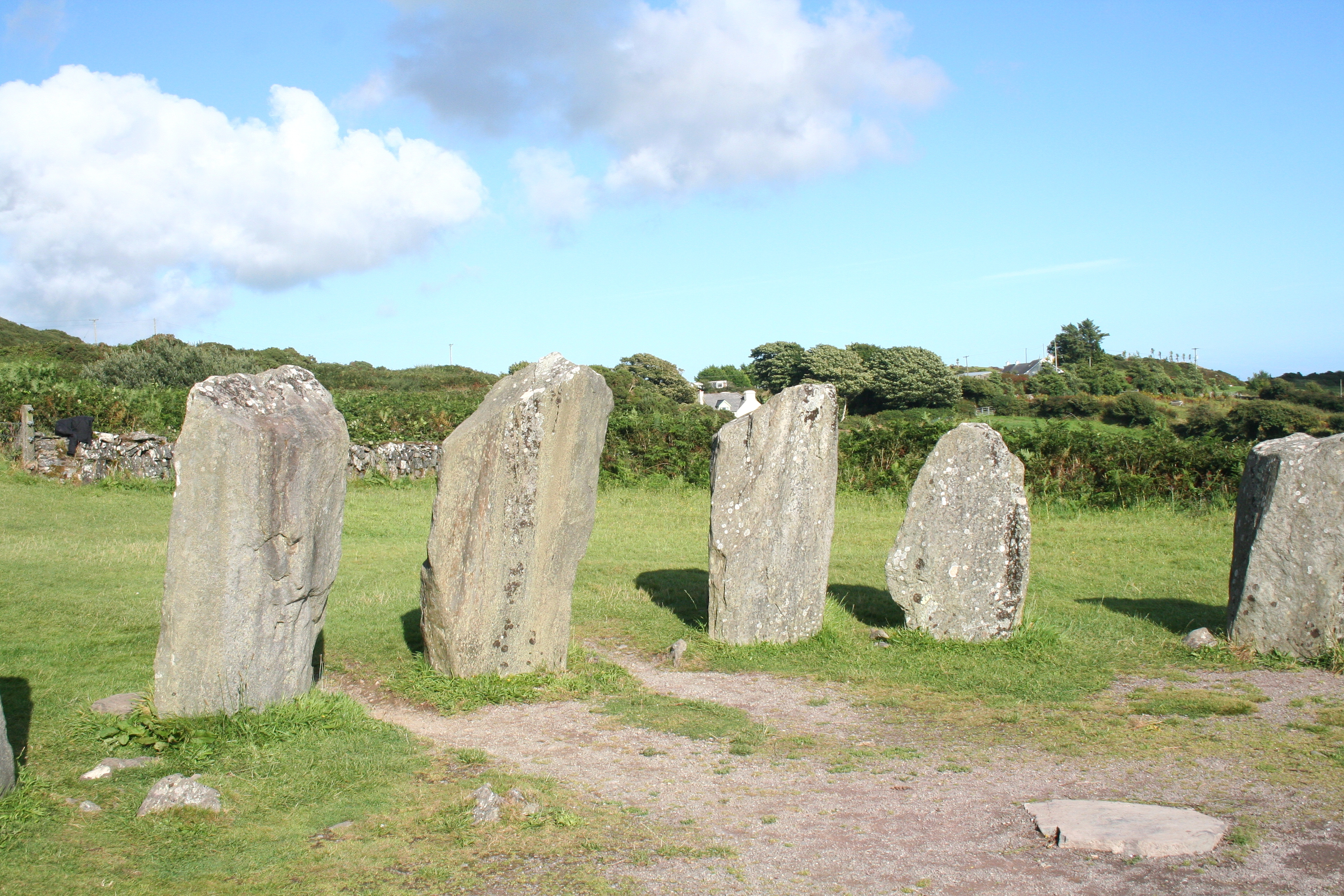 Drombeg Stone Circle / Eastern part